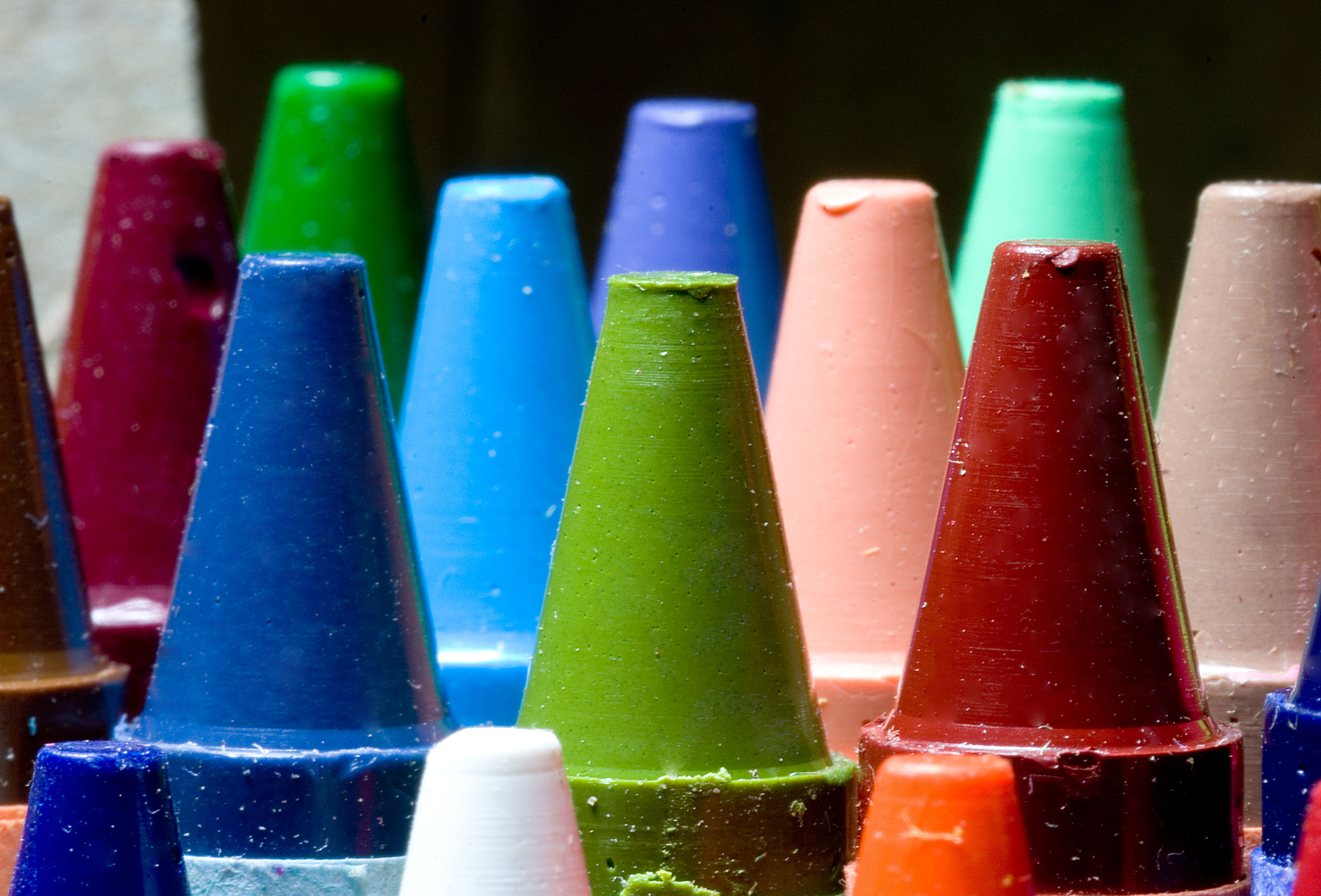 Well it is not great, but here is one of the crayon pics.